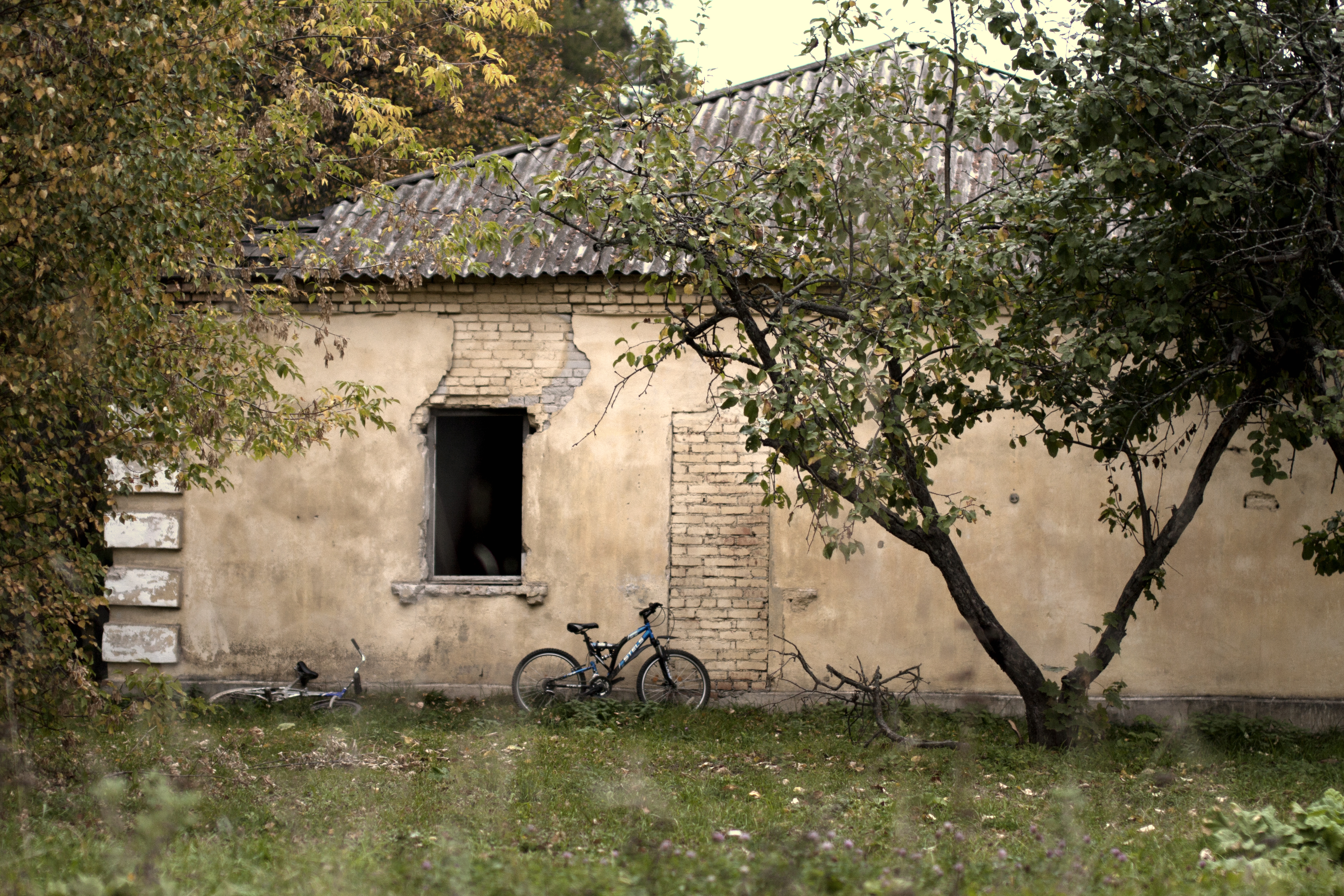 Old building in Podyachevo village